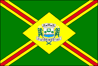 Flags of the city of Arinos, Minas Gerais, Brazil.